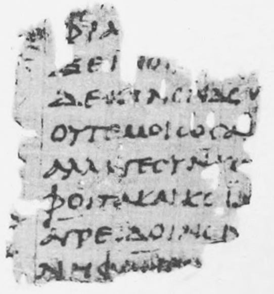 P.Oxy. VI 854: Archilochus